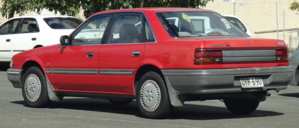 A rebadged Mazda 626, the Ford Telstar was a big seller for Ford Australia and over the years the Mazda 626/Ford Telstar twins had won the Australian Car Of The Year award twice. Sold in Australia as a 4dr sedan and 5dr hatch, it was also sold as a wagon in New Zealand, where I believe it was the only market to get a Telstar wagon variant. The Telstar was also built in Australia and New Zealand, but after a few years, Australian production stopped and imports came from Japan.